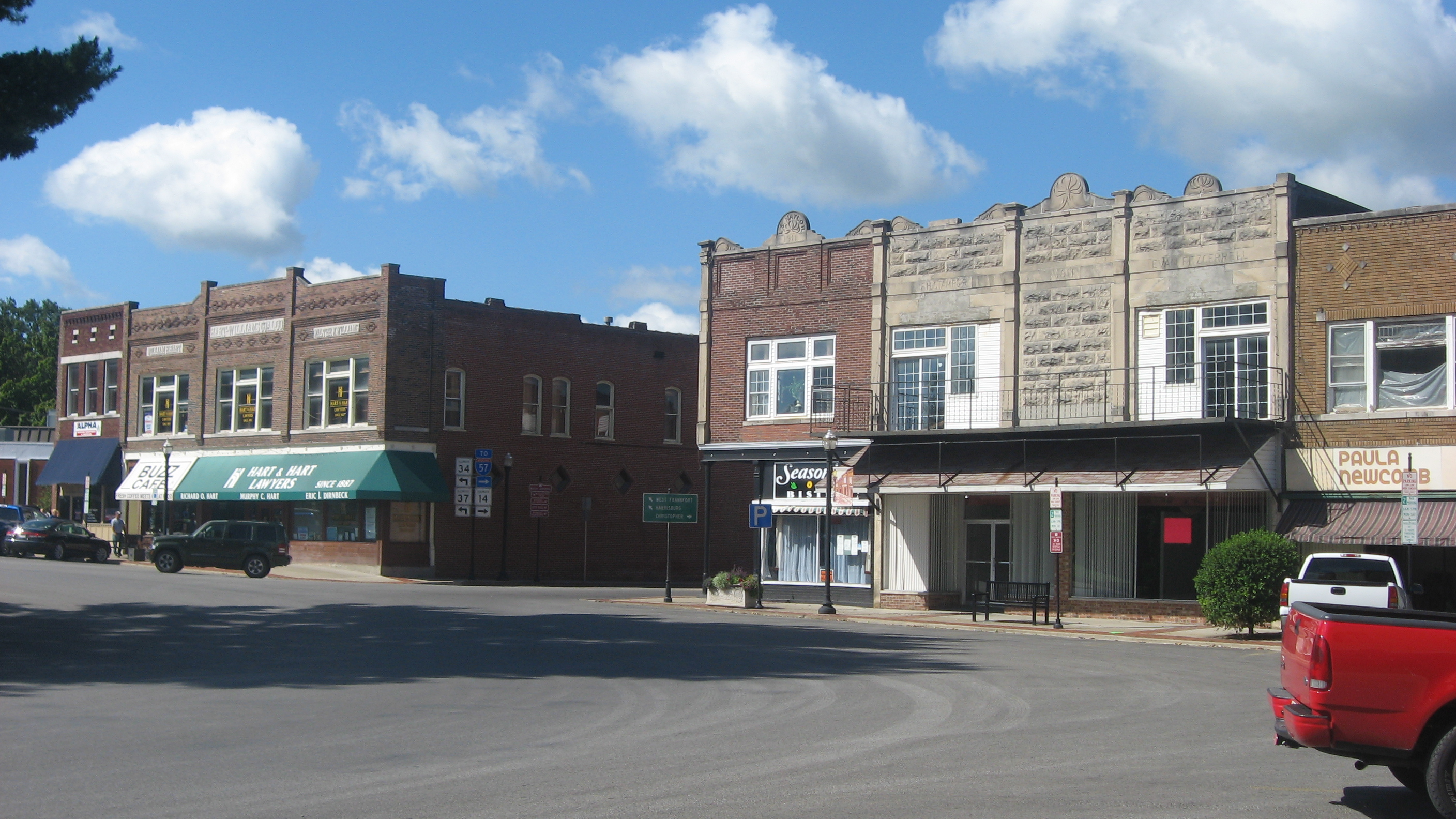 Buildings on the western side of Courthouse Square (Illinois Routes 14/37) in downtown Benton, Illinois, United States.